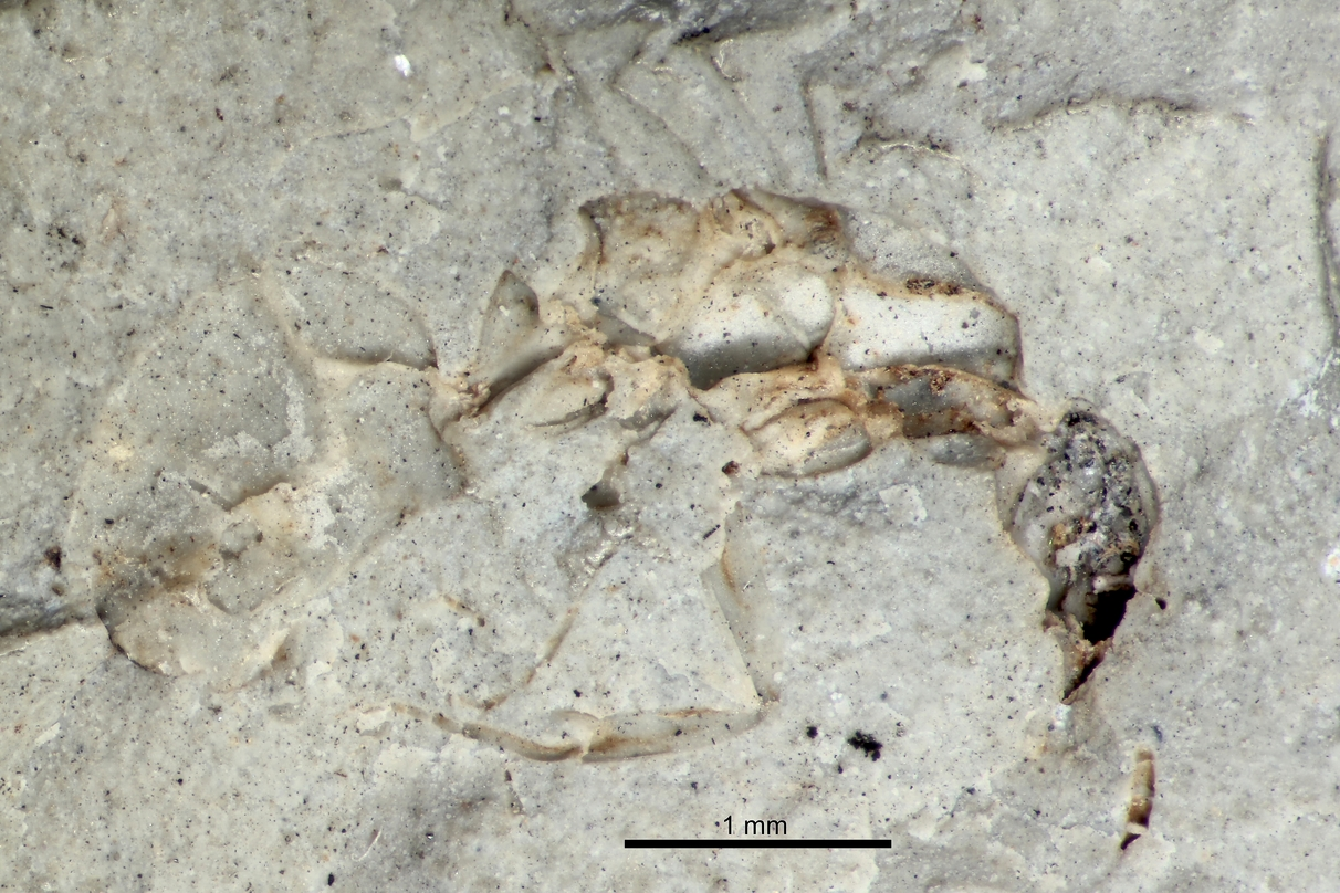 Profile view of the Dolichoderus vectensis holotype queen. Late Eocene; Bembridge Marls, Bouldnor Formation; Isle of Wight, England. United Kingdom. Natural History Museum, London, United Kingdom. Specimen BMNHP9198